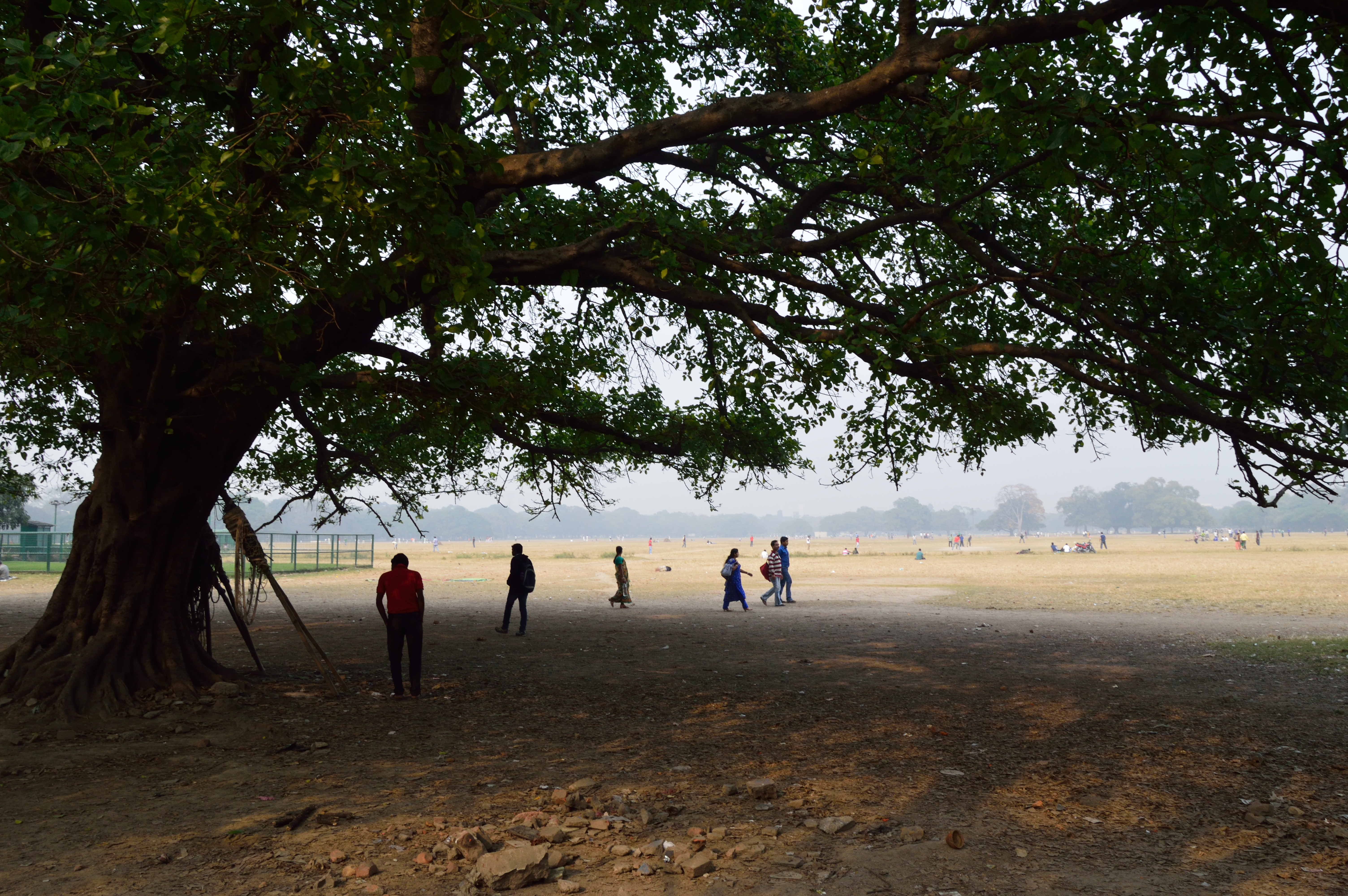 Photographed in Kolkata.